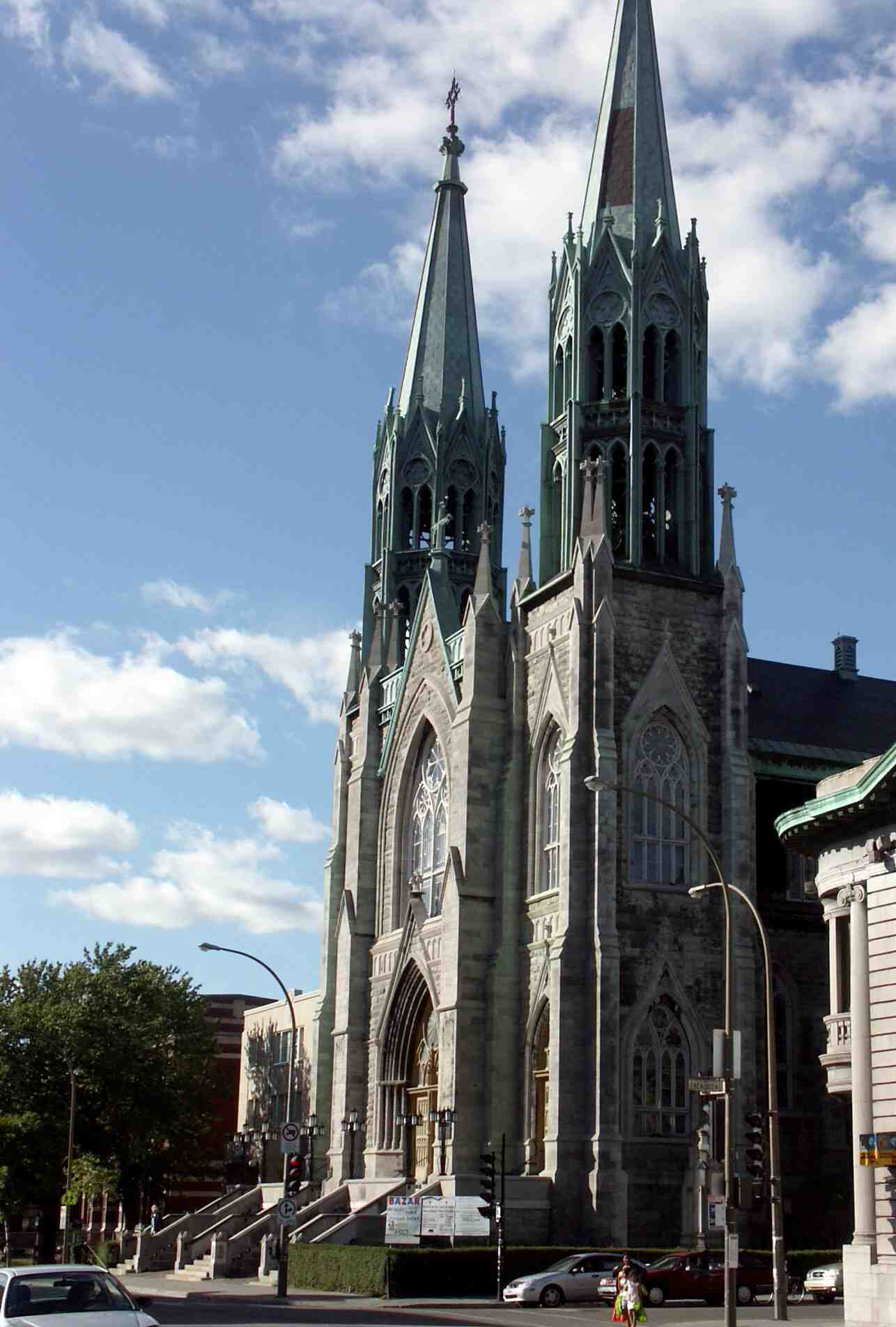 Église Saint-Édouard, 450, rue Beaubien Est, Montreal. Church in the burrough of Rosemont-La Petite-Patrie, corner of St-Denis and Beaubien.